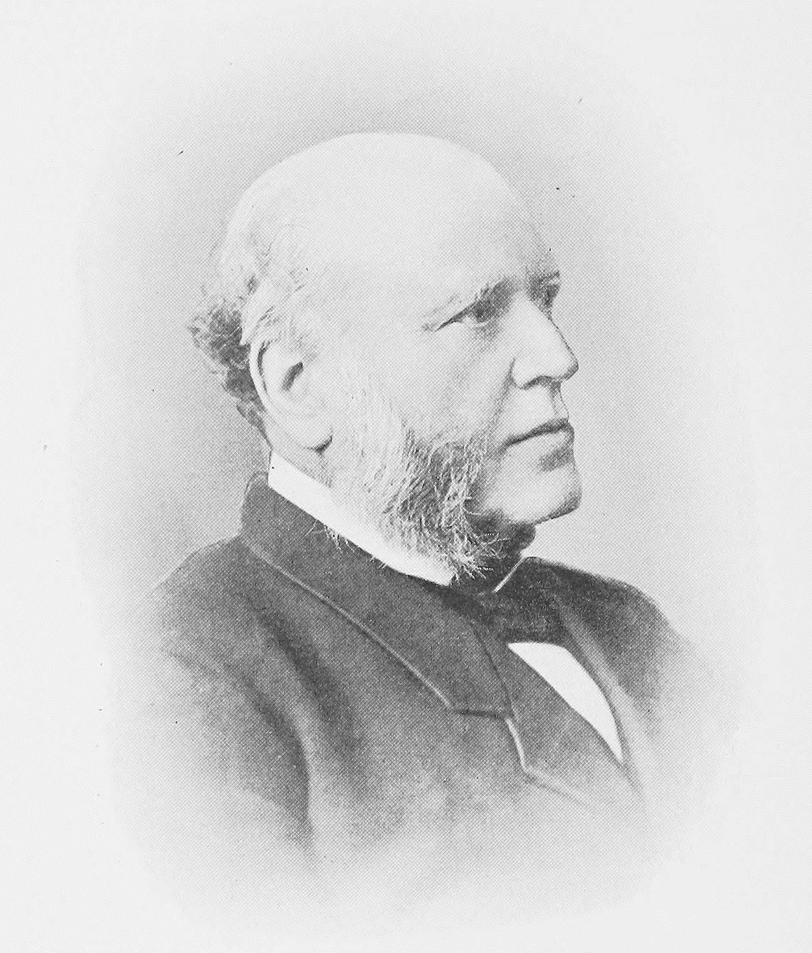 Robert Morier